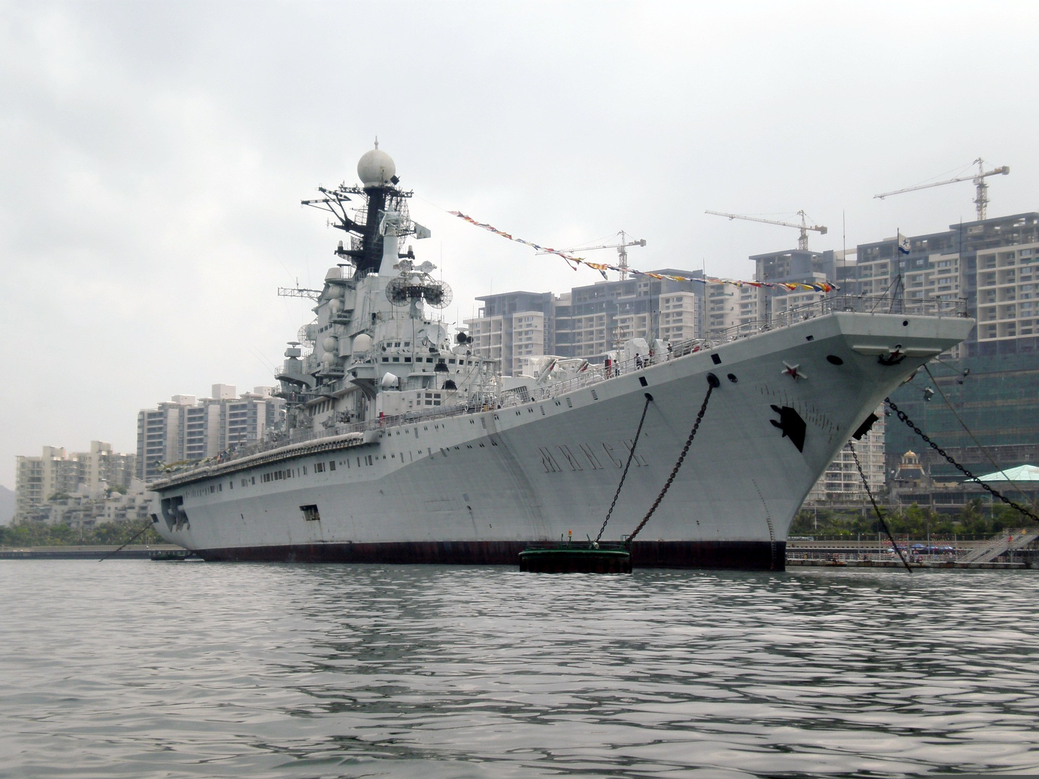 The starboard side of the former Soviet aircraft carrier Minsk moored in Shenzhen, China, as seen from a motorboat that can be rented for a 5 minute cruise around the starboard and bow of the Minsk. The Minsk is the centerpiece of the Minsk World military theme park.